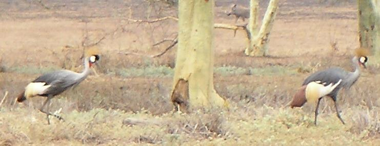 Grey Crowned Cranes (Balearica regulorum) in northwest area of Gorongosa National Park, Mozambique.